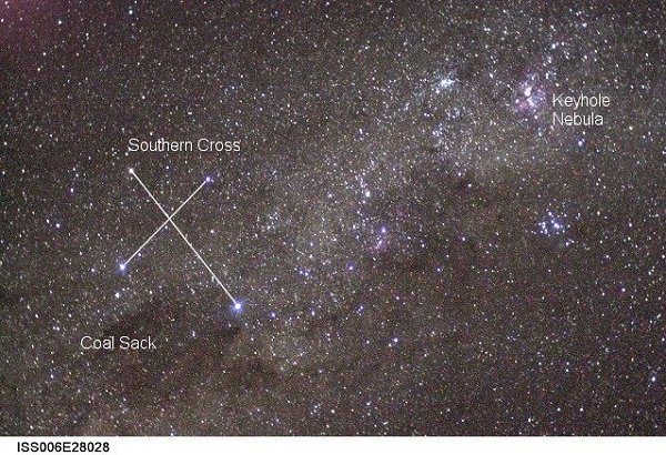 The Southern Sky from the International Space Station